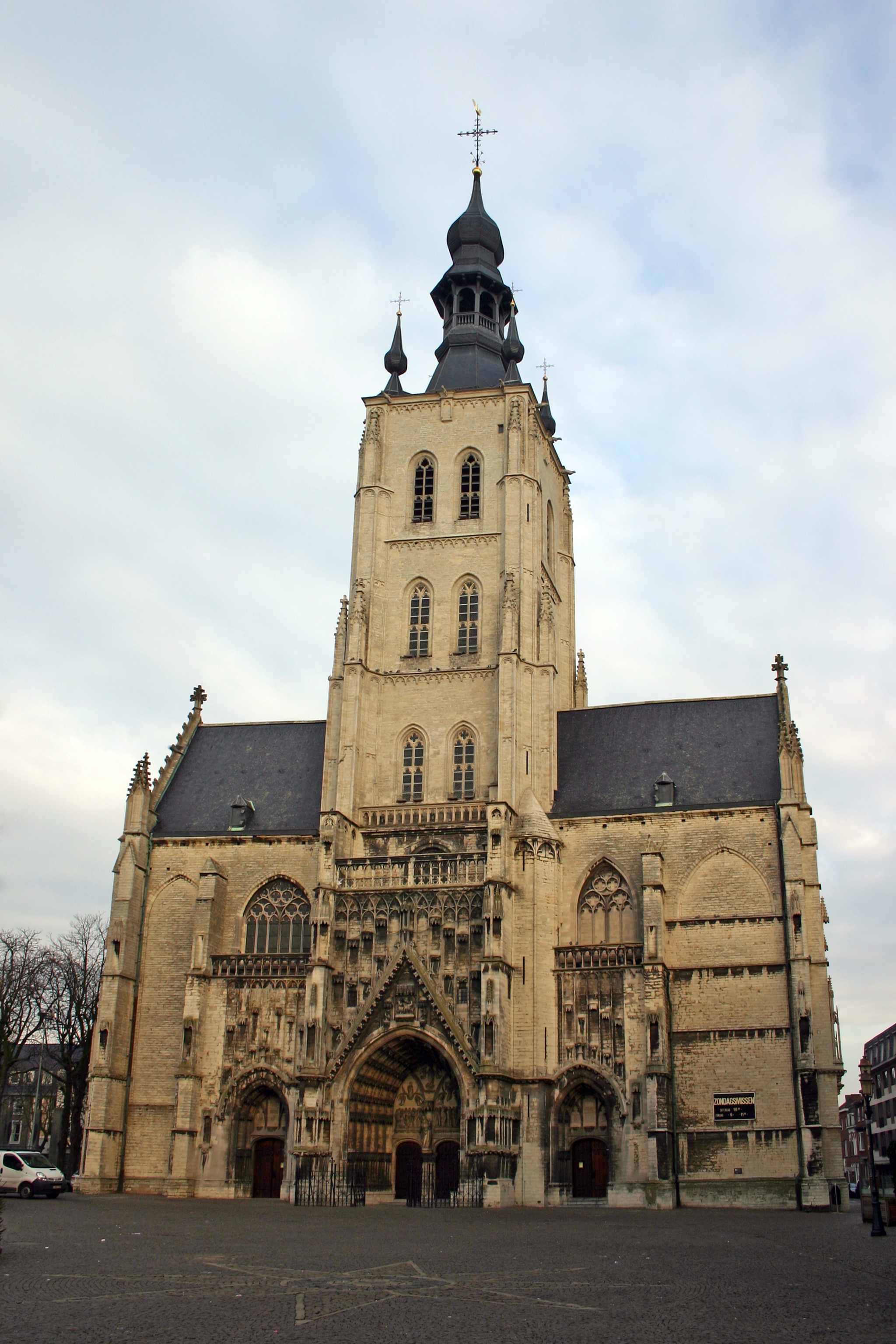 Church Onze-Lieve-Vrouw Ten Poel in Tienen (The Flanders, Belgium)